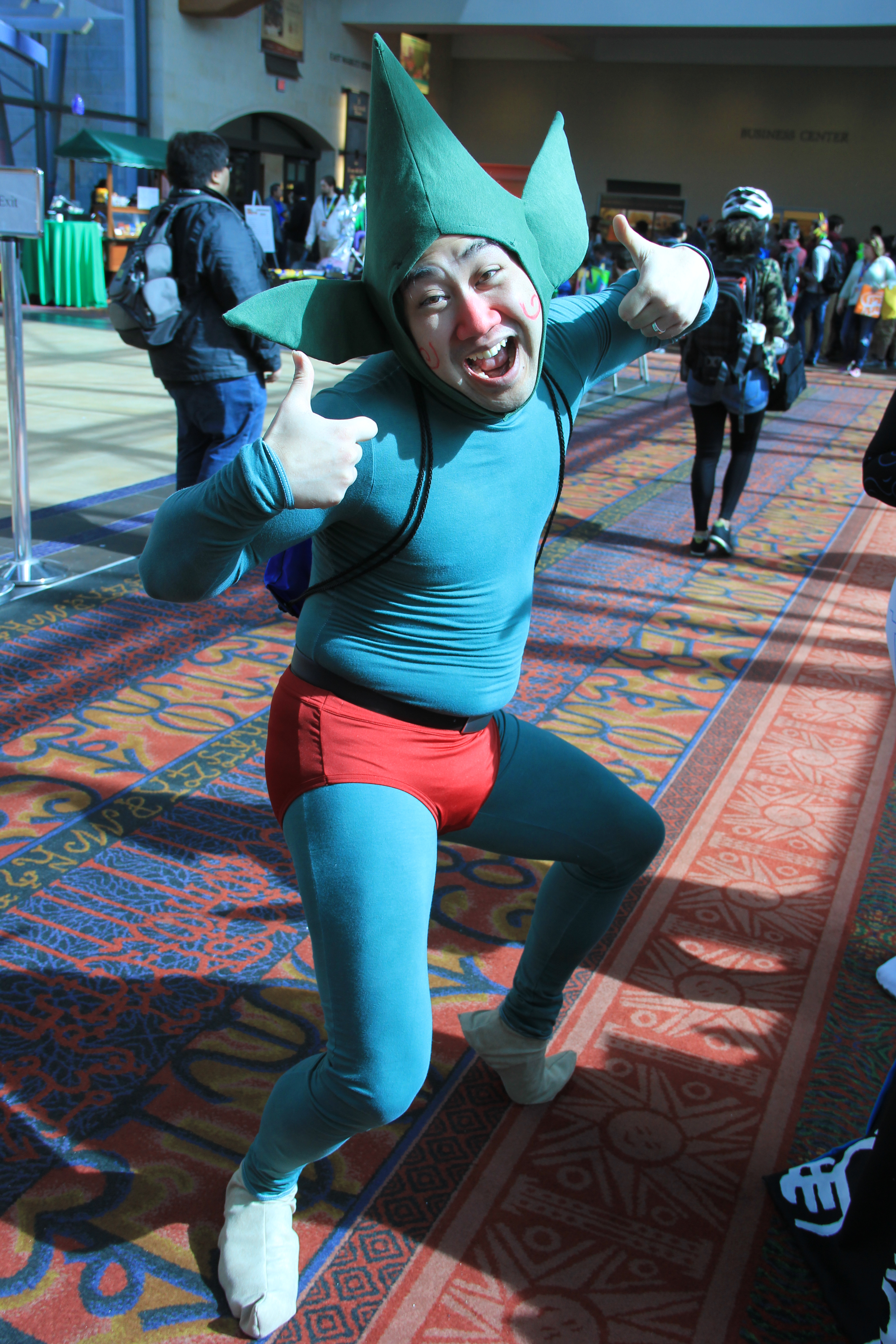 Legend of Zelda series Taken on day 2 or 3 of PAX South 2015.